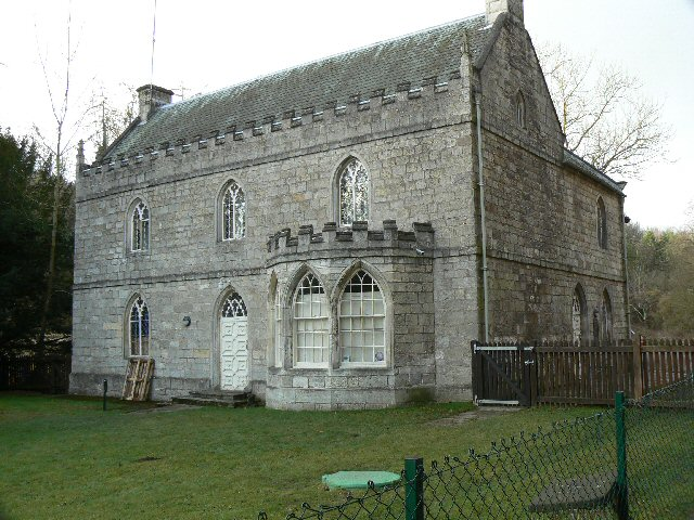 Abbey House The Abbey House at Roche Abbey